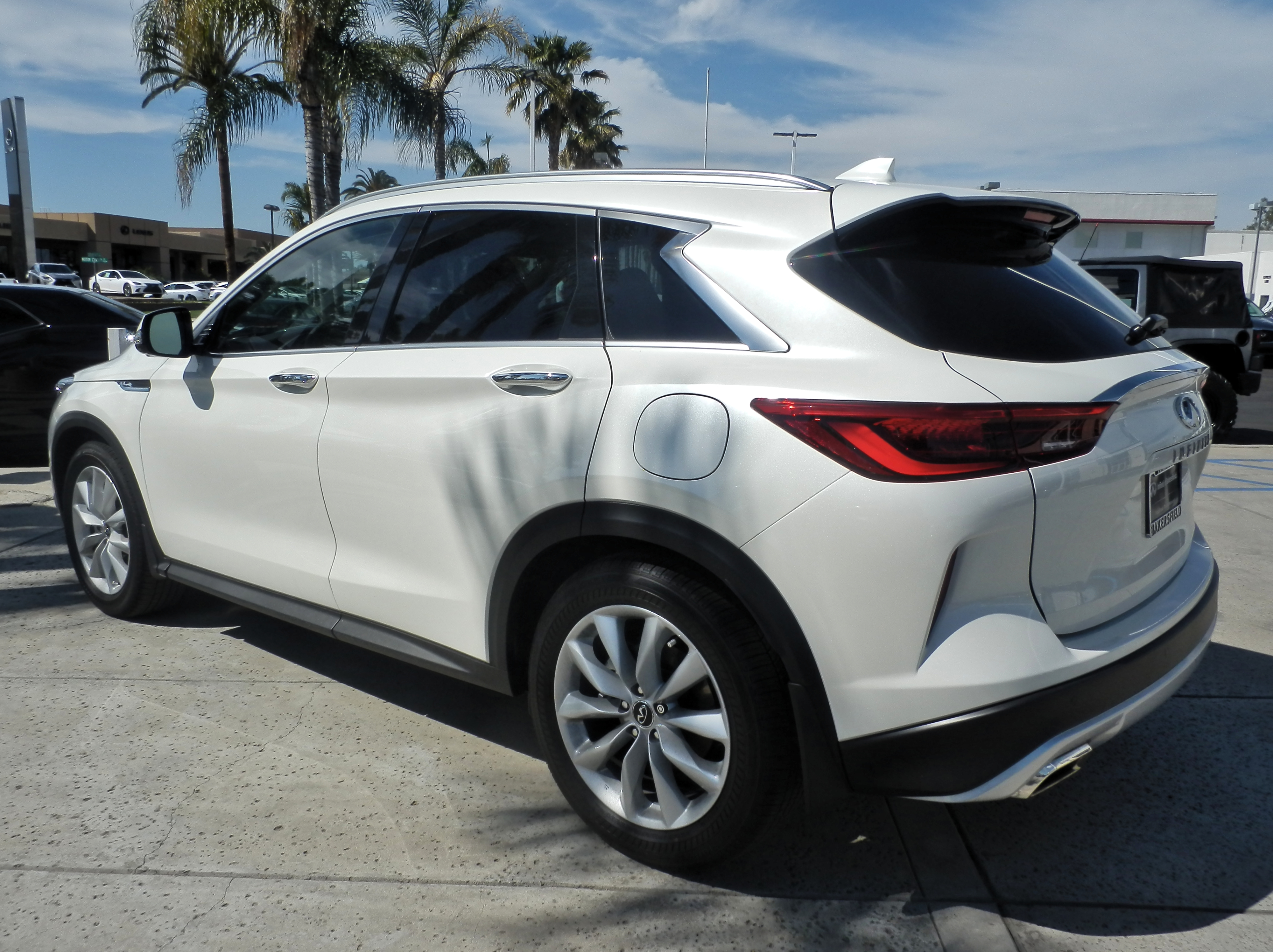 Infiniti QX50 (P71A) in Bakersfield